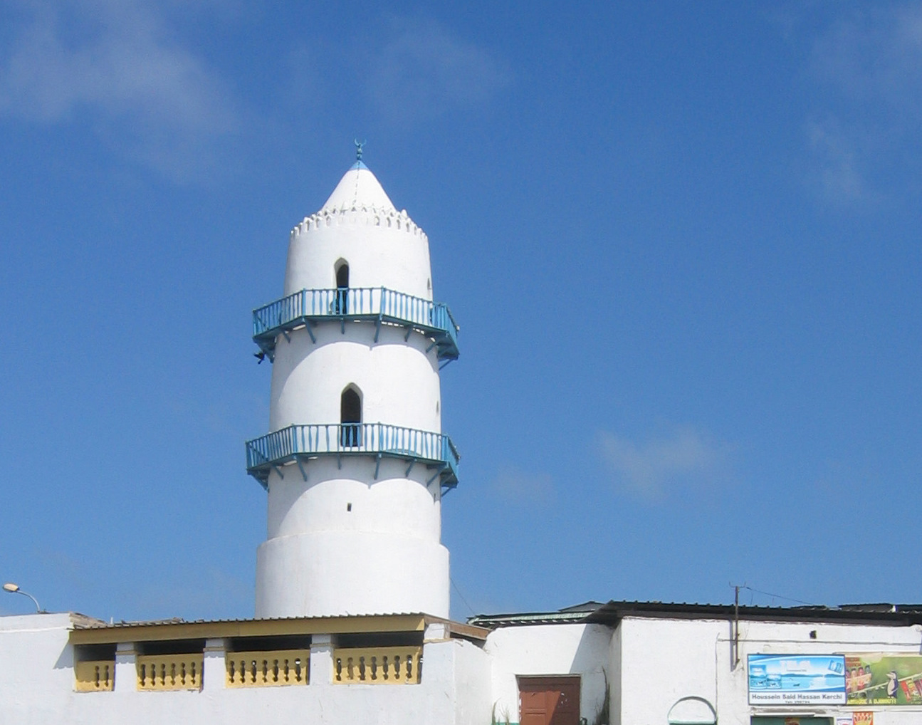 Hamoudi Mosque. Emblematic landmark of Djibouti City built in 1906.